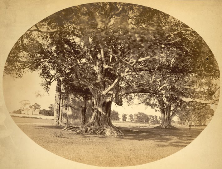 Photograph of a small mosque on the Puraria Paltan Maidan at Dhaka in Bangladesh. It was taken in the 1870s by an unknown photographer. In this view, the small mosque is almost hidden by a tree.